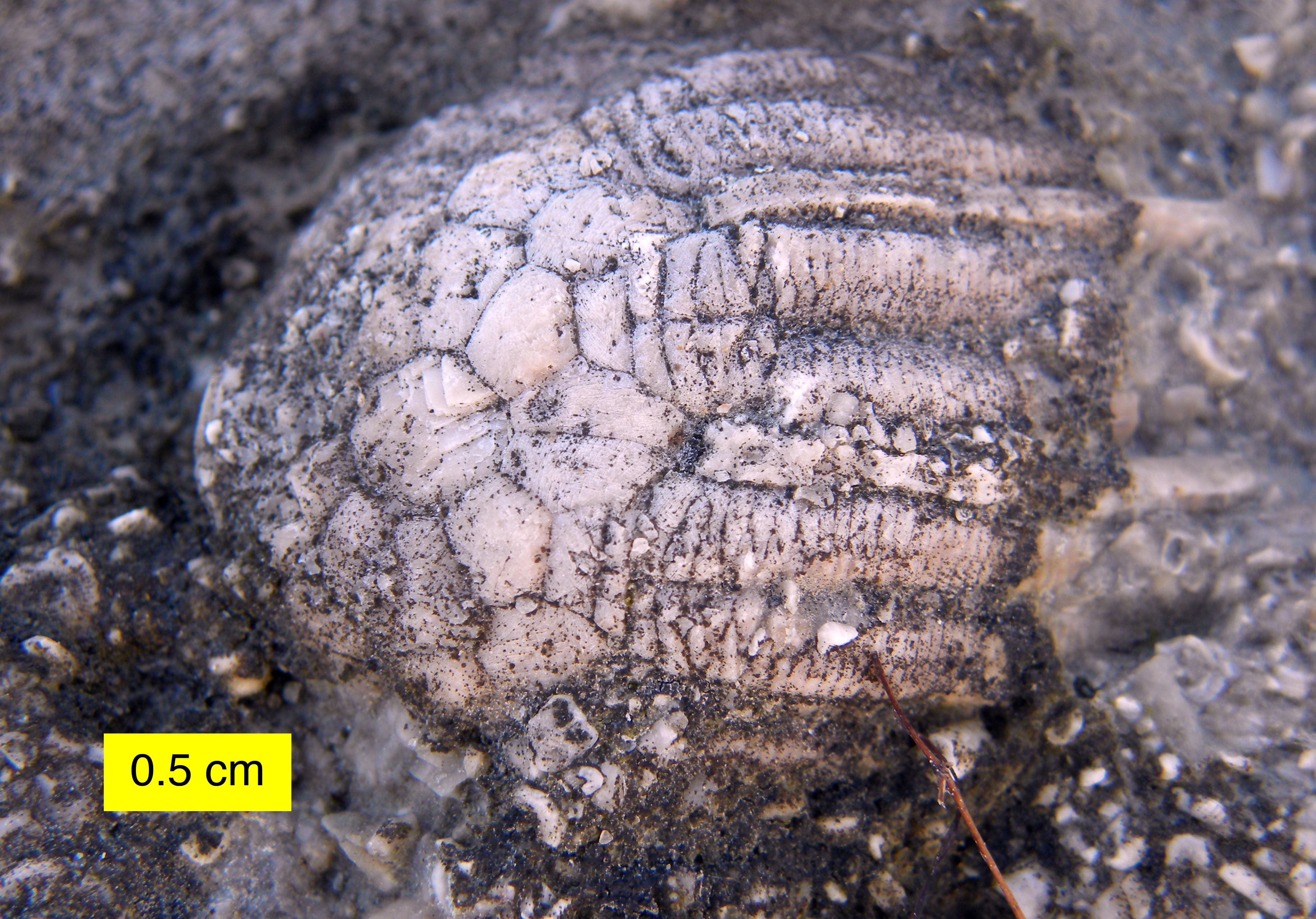 Eucalyptocrinites calyx; Kaugatuma Formation (Upper Silurian, Pridoli), Saaremaa, Estonia. Specimen found by Nick Fedorchuk. Fossilworks PaleoDB link: Eucalyptocrinites Goldfuss 1831 (extinct)